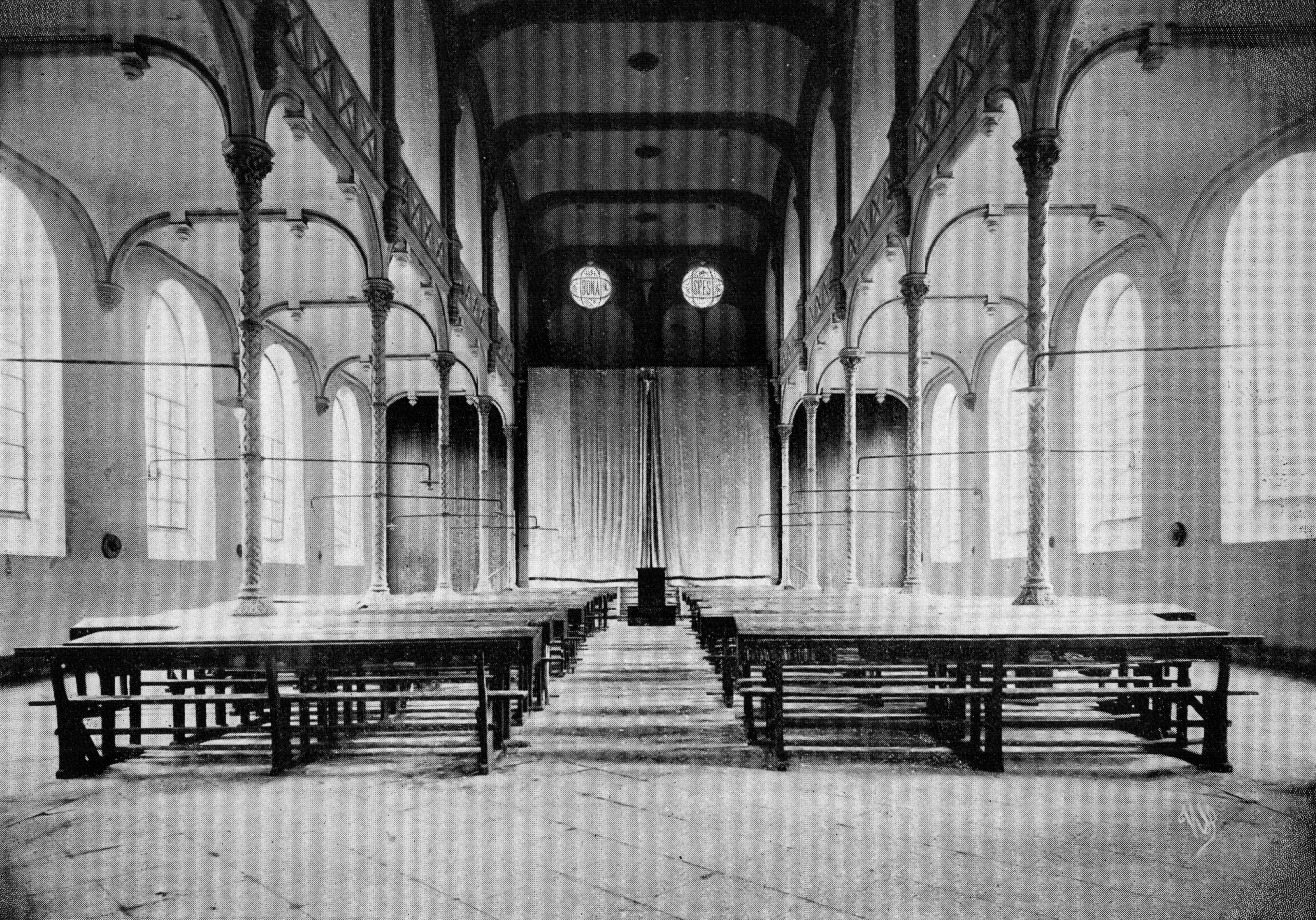 Bonne-Espérance Abbey, Vellereille-les-Brayeux (Belgium), the hall of the Minor Seminary (1858).